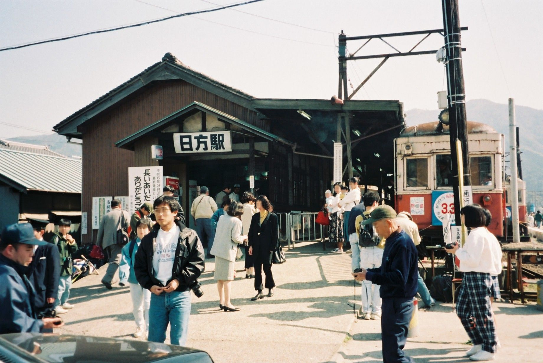 Nokami Electric Railway Hikata Station. It was taken at 1994/03/31.